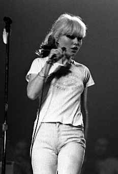 Taken at Maple Gardens, Toronto, Deborah Harry of the band 'Blondie'.